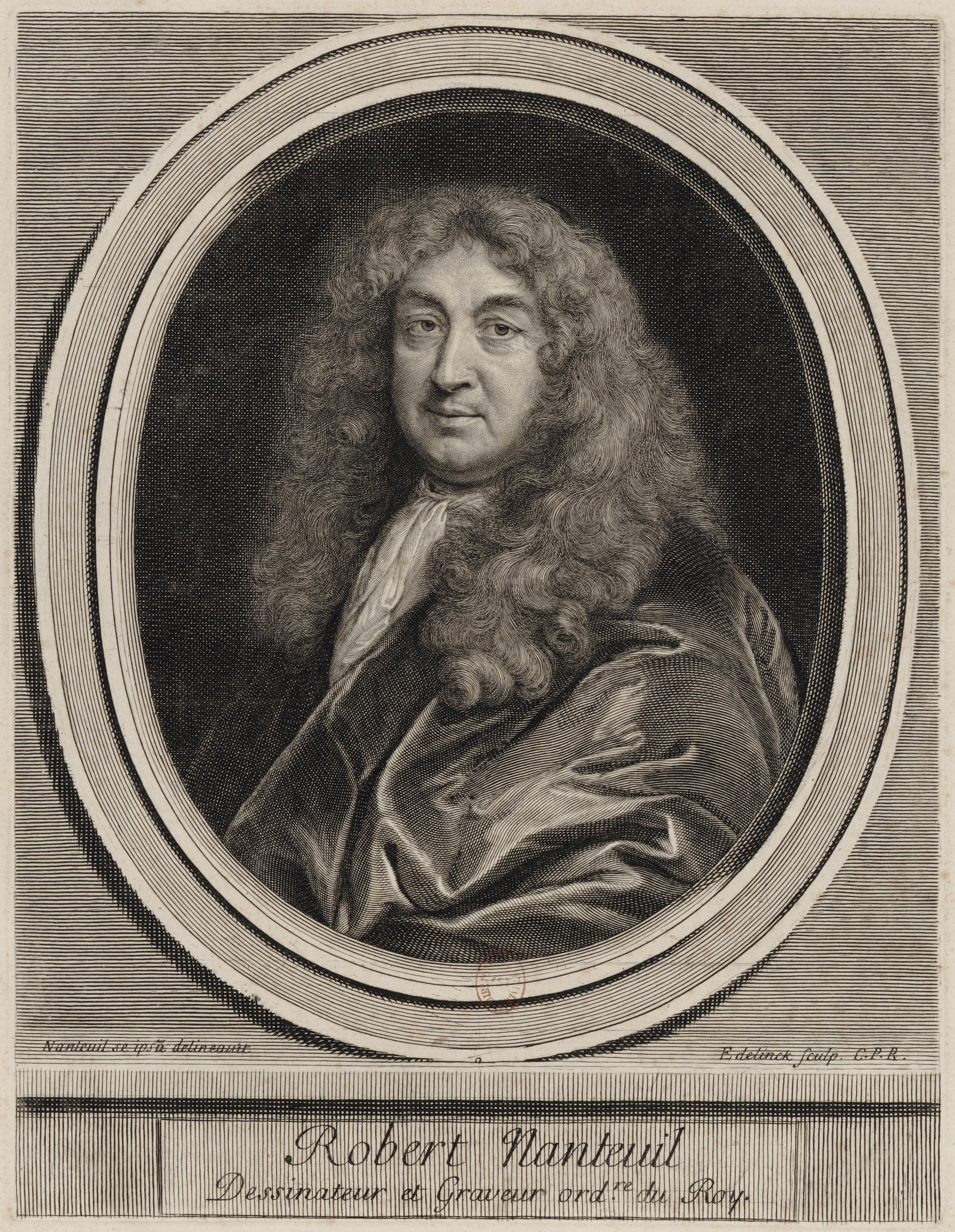 Portrait of Robert Nanteuils